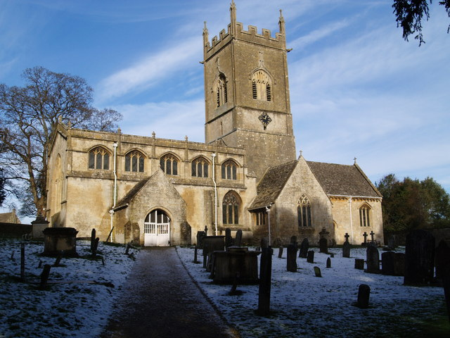 St Michael and All Angels parish church, Withington, Gloucestershire, seen from the southwest in snow